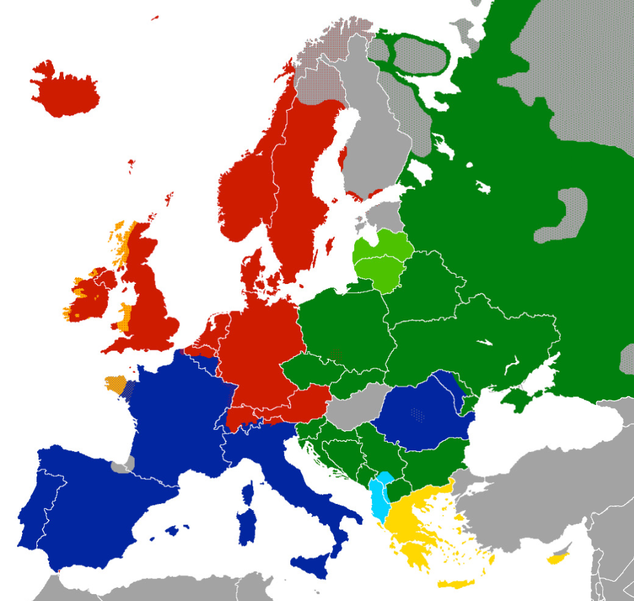 A map showing the approximate present-day distribution of the Indo-European branches in Europe. The following legend is given in the chronological order of their earliest surviving written attestations: Hellenic (Greek) Italic (includes Romance) Celtic Germanic Balto-Slavic (Baltic) Balto-Slavic (Slavic) Albanian Non-Indo-European languages Dots indicate areas where multilingualism is common.